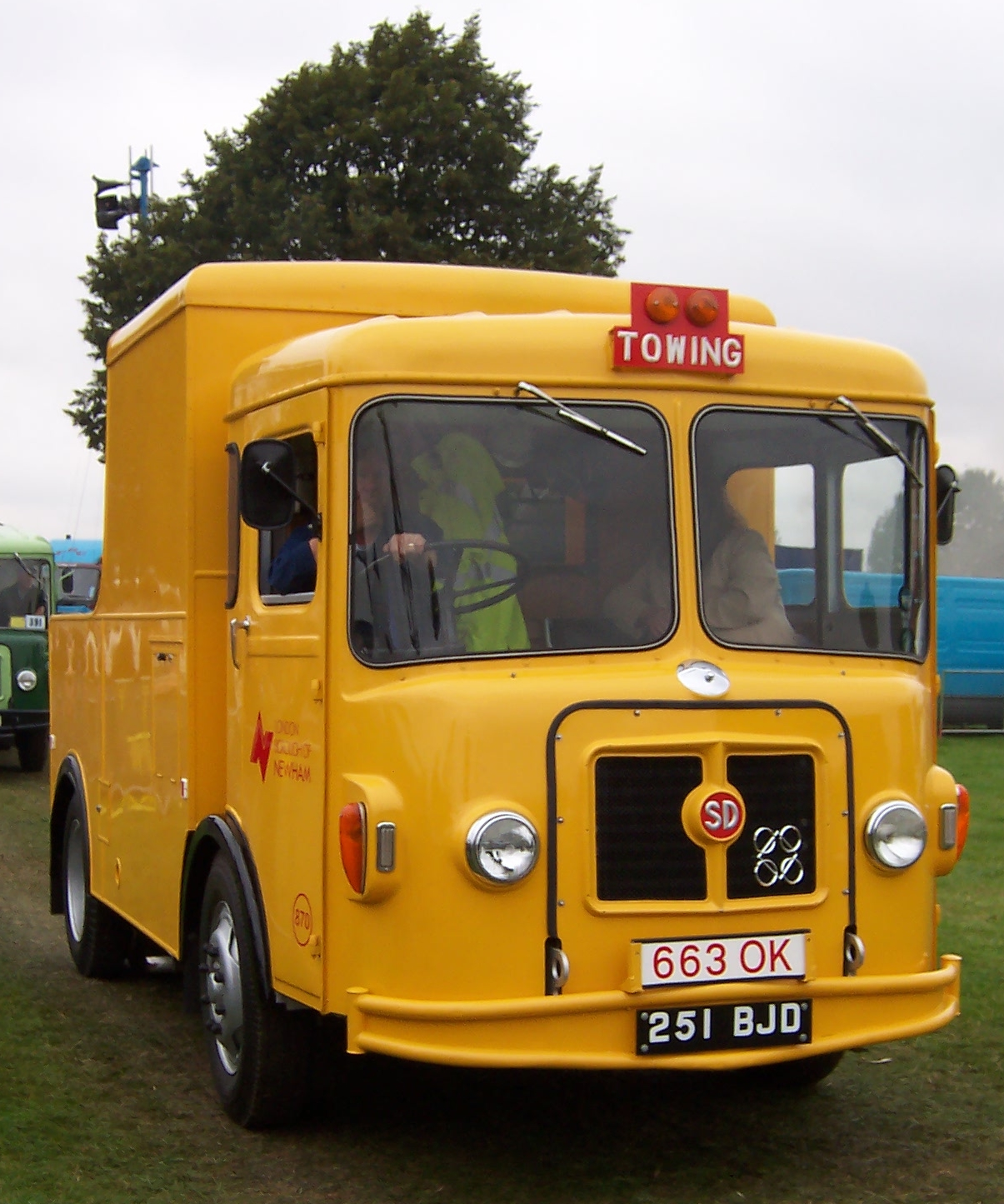 251 BJD 'TZ' Recovery Vehicle seen at Old Warden Steam Fair 2003.